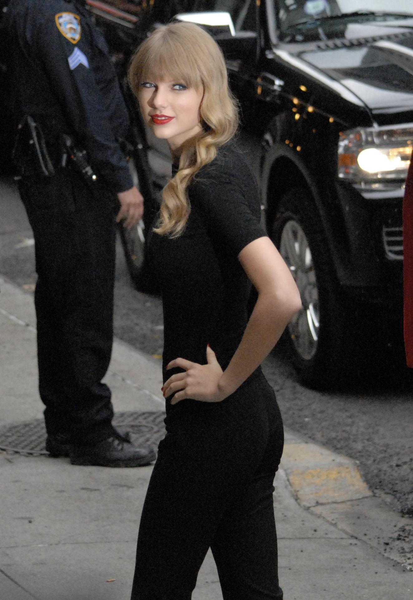 Taylor Swift outside Letterman studio on October 2012.